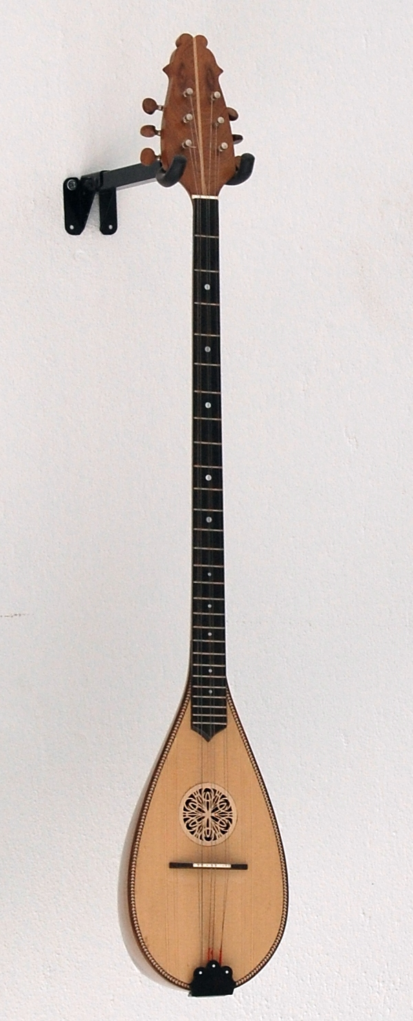 A Tzouras, a kind of bouzouki.